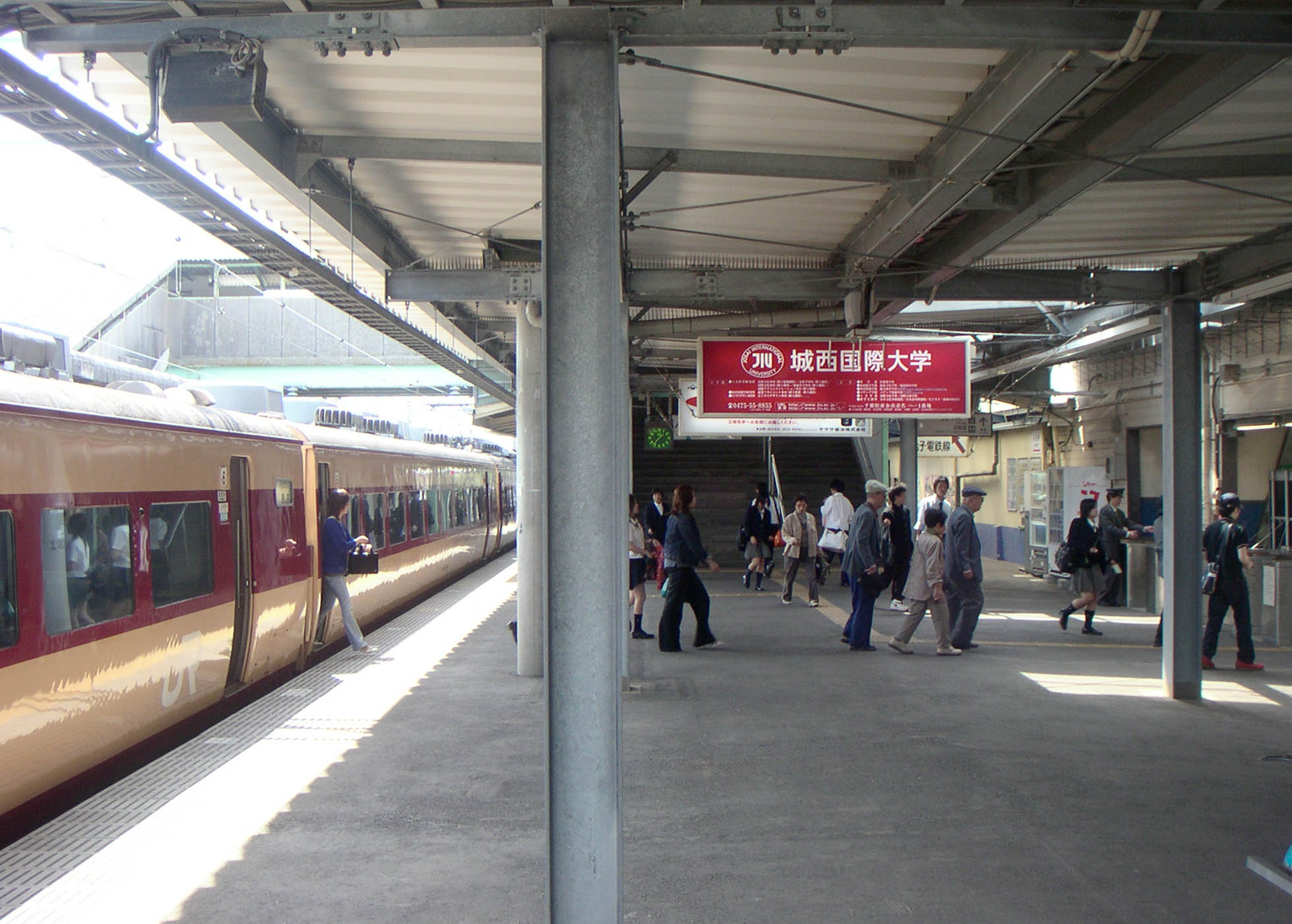 Choshi Station Sobu Line platform